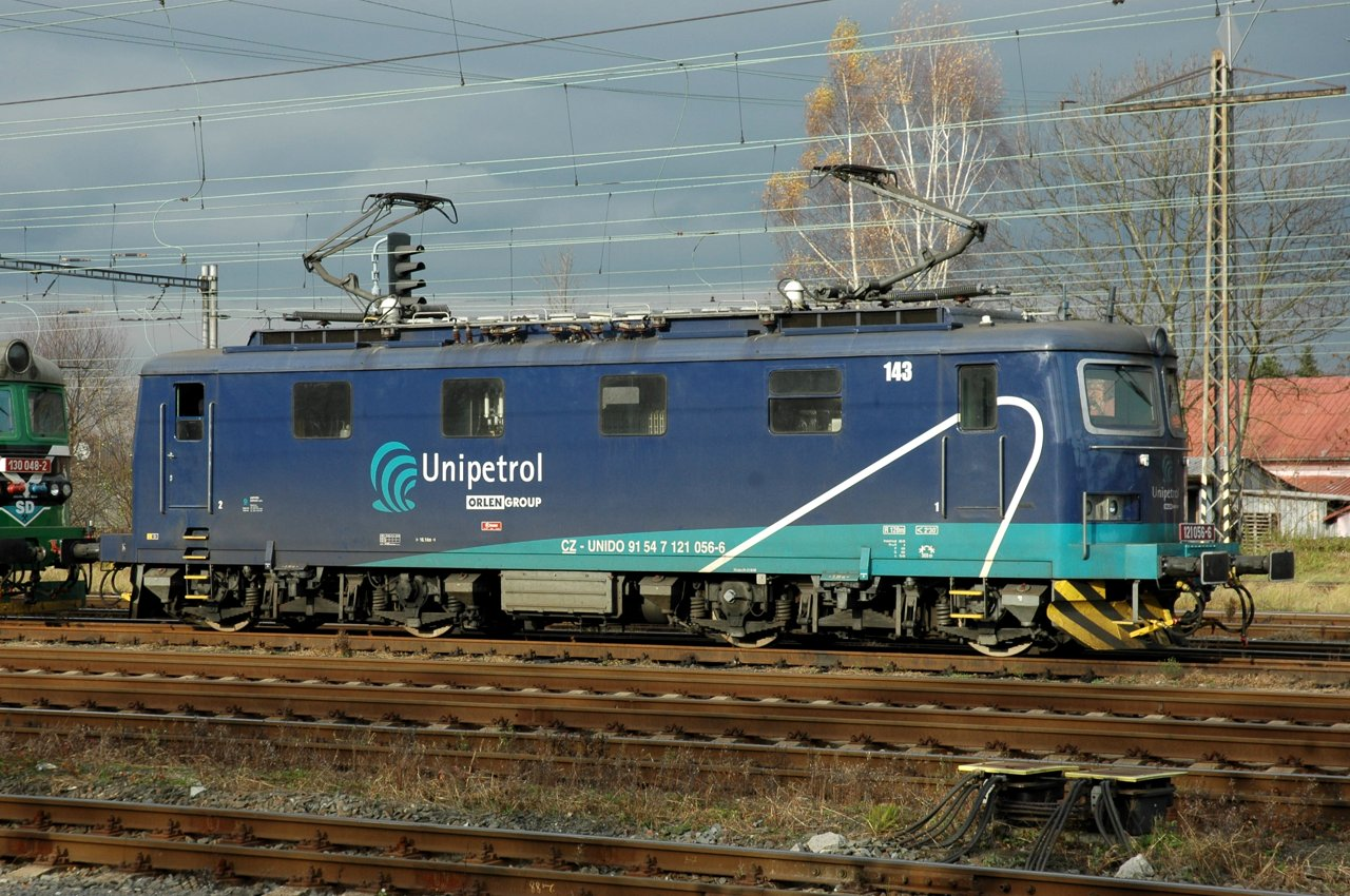 Locomotive 121.056 of Unipetrol Doprava railway operator at Petrovice u Karviné railway station